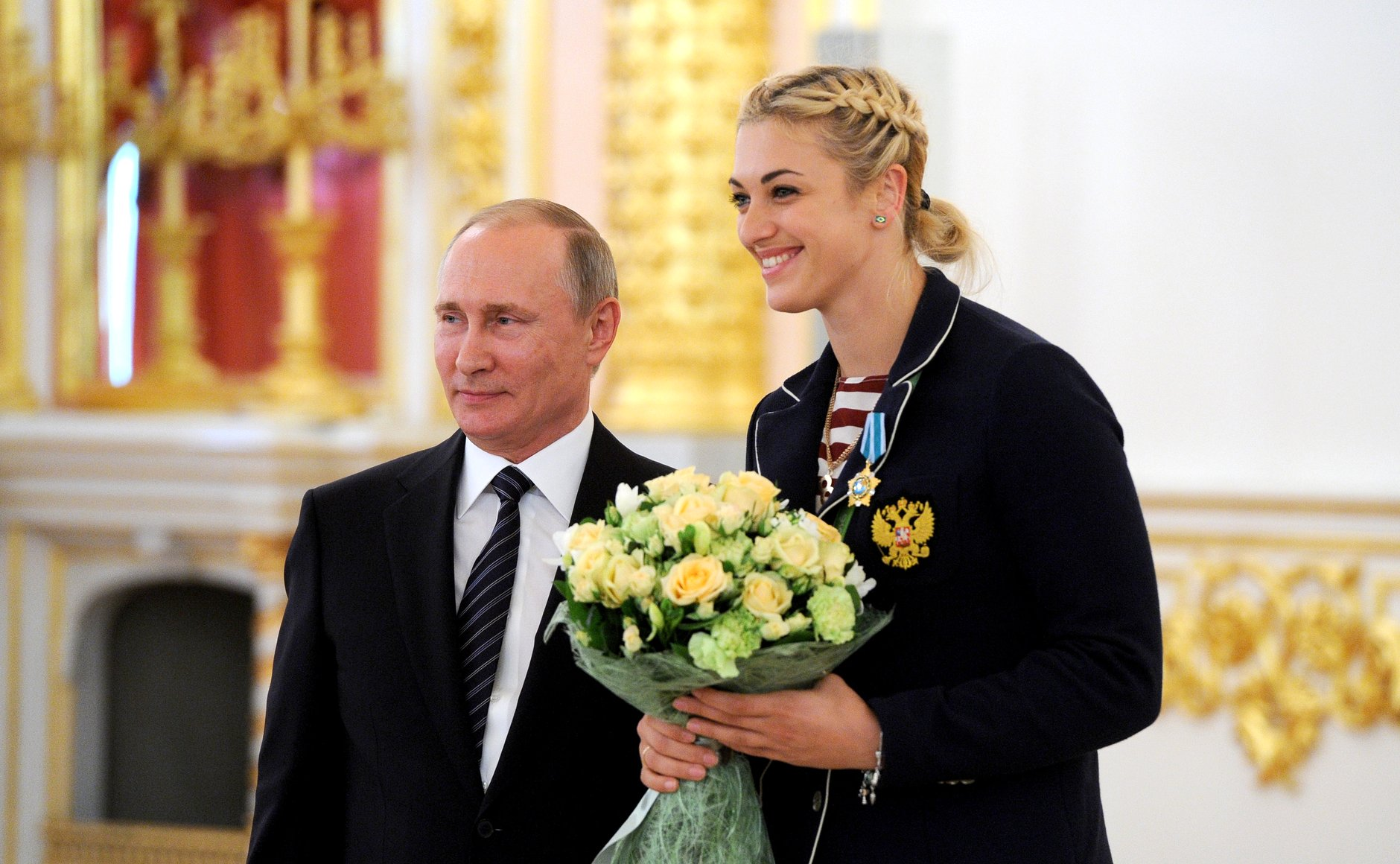 Vladimir Putin presented state awards to the Russian athletes who won gold medals at the 2016 Olympic Games in Rio de Janeiro (Brazil).